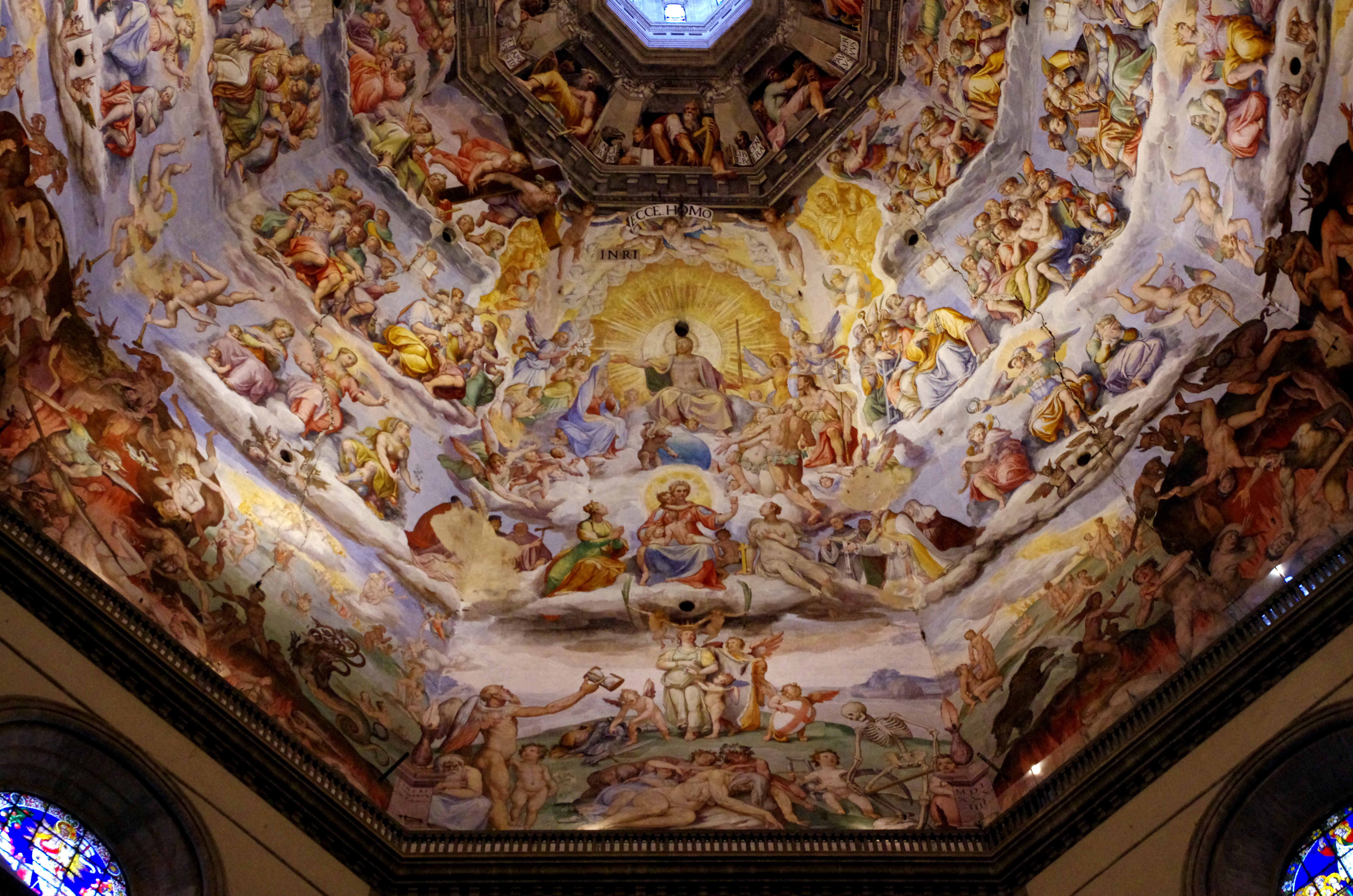 03 2015 Judgement detail-central-Giorgio Vasari-Federico Zuccari-Dome-Santa Maria del Fiore (Florence) Photo Paolo Villa